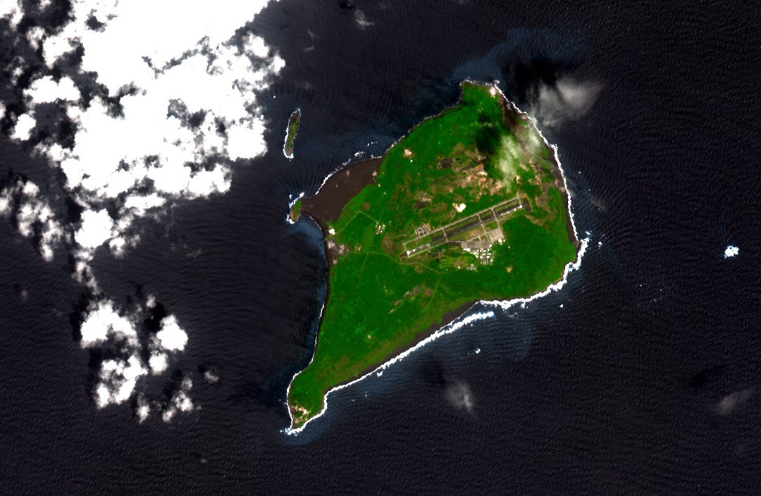 Terra ASTER satellite image of Iwo Jima (Iō-jima), Volcano Islands, Japan